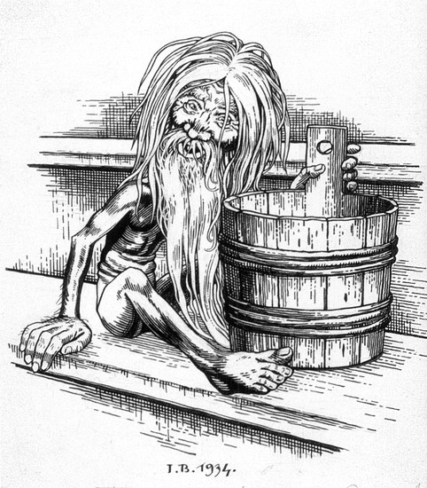 Bannik near a bucket of water (ouchat)